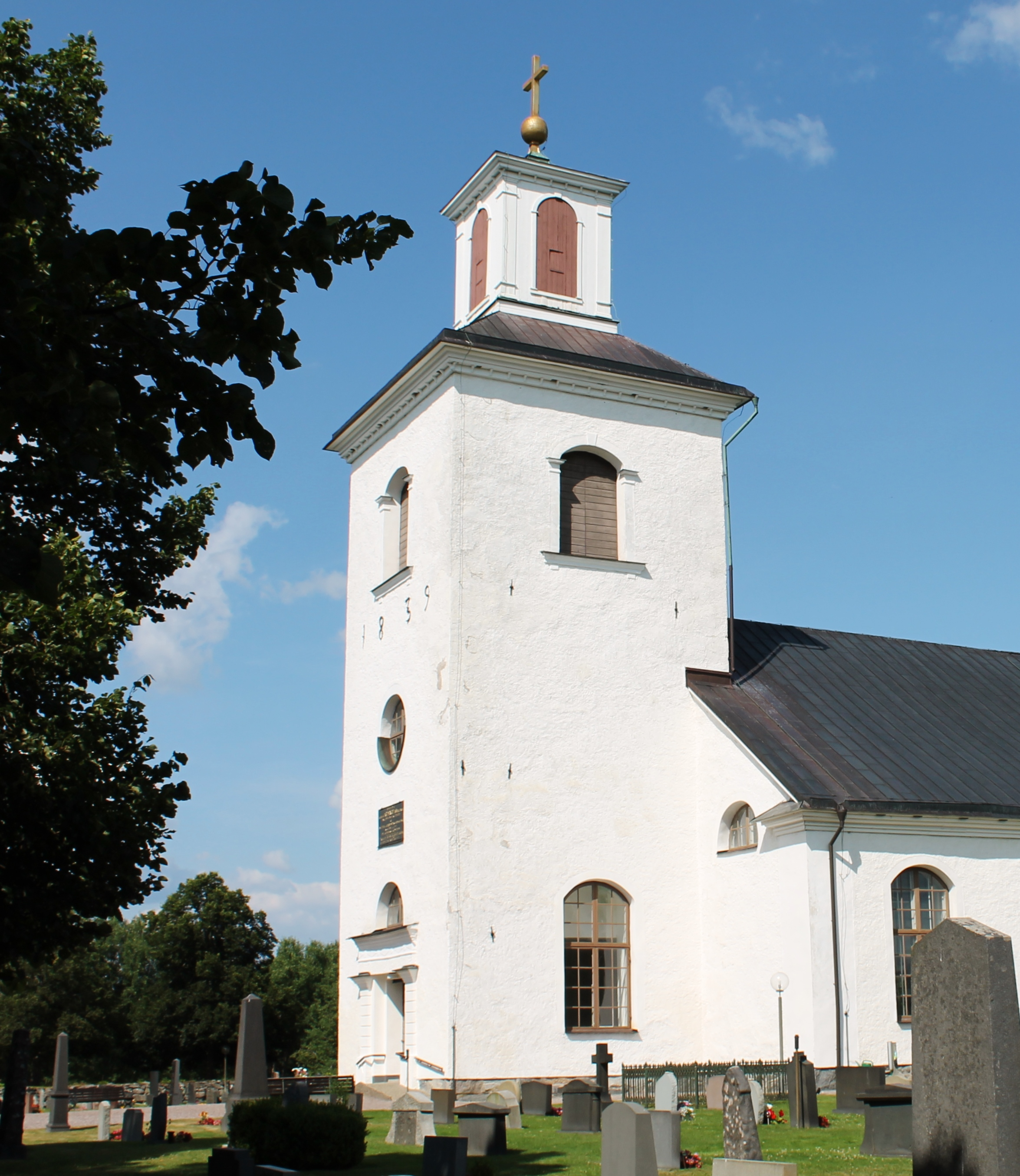 Hjortsberga Church.Tower BuildingH